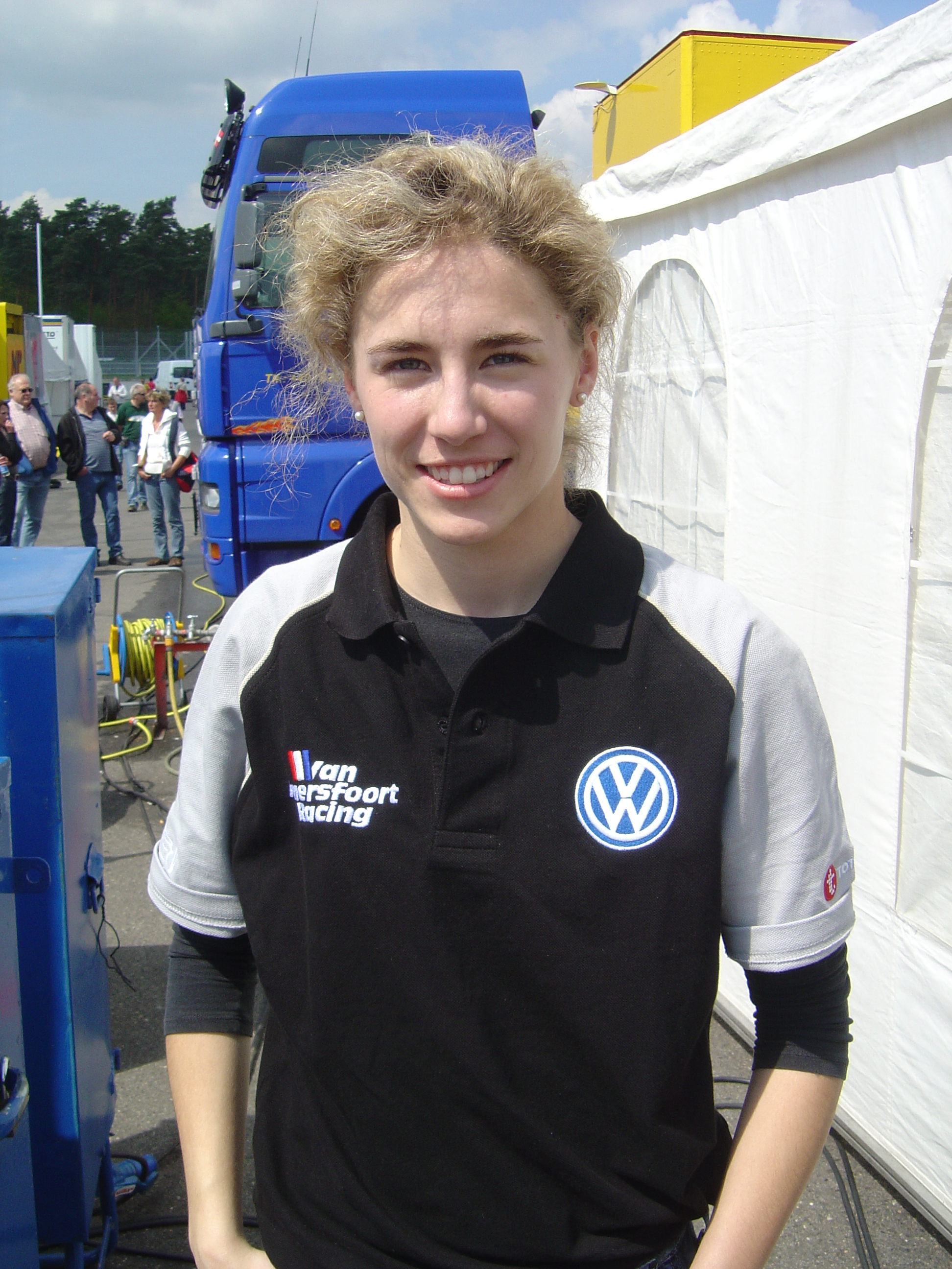 Rahel Frey: the photo was taken during 2008's Jim Clark Revival at Hockenheim